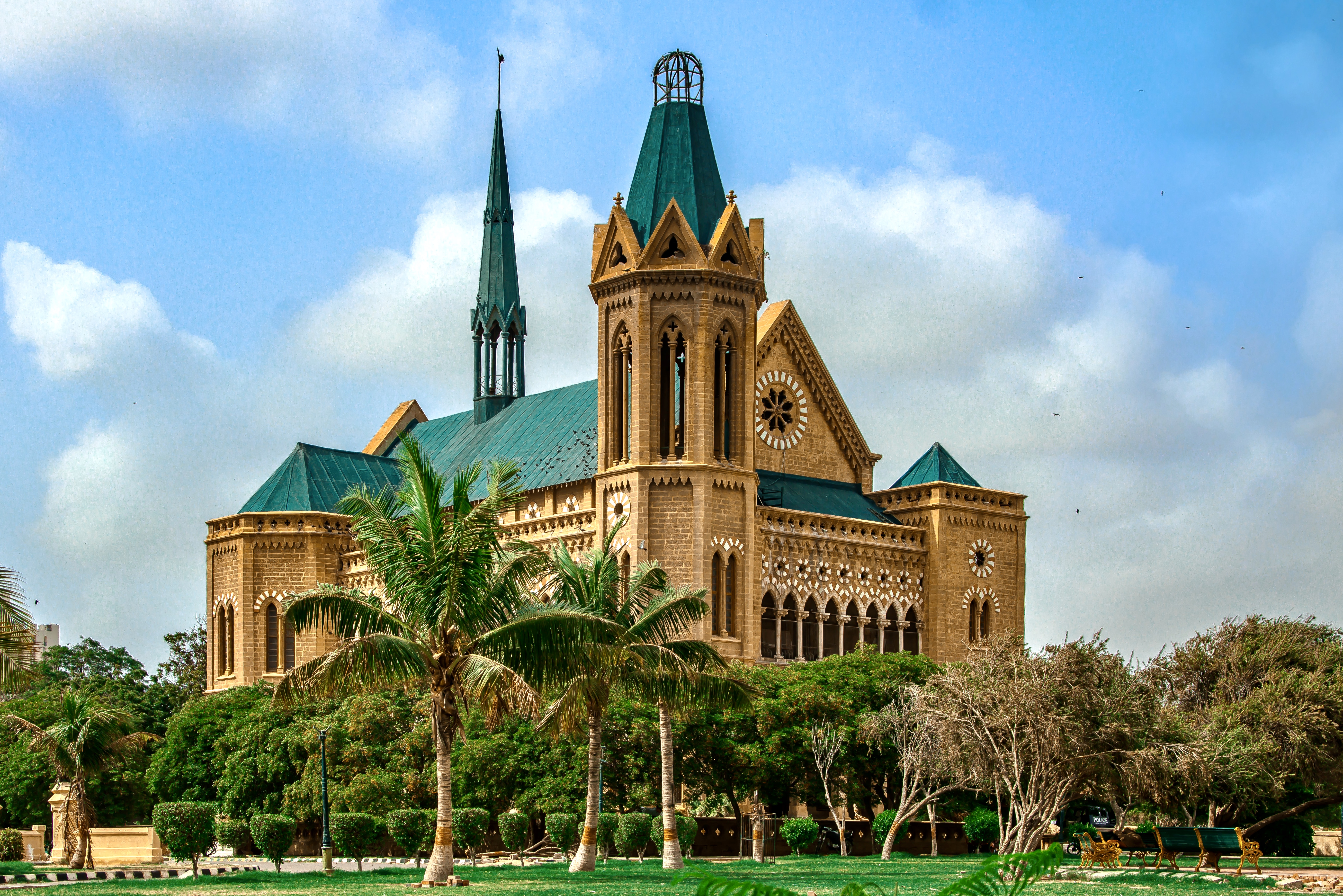 Frere Hall This is a photo of a monument in Pakistan identified as the SD-34